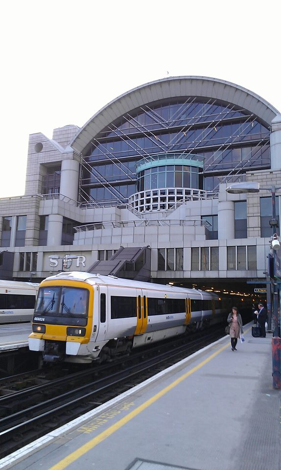 Charing Cross railway station.